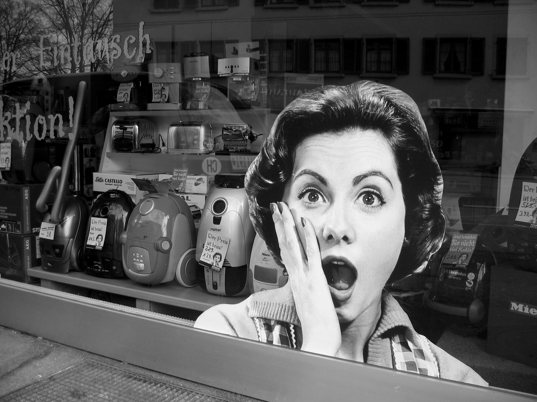 Shopping window in St.Gallen, Switzerland, Vacuums